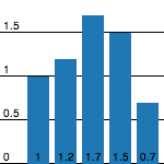 Simple bar chart created with Protovis